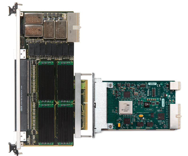 FPGA board with pin electronic on ABex terminal module